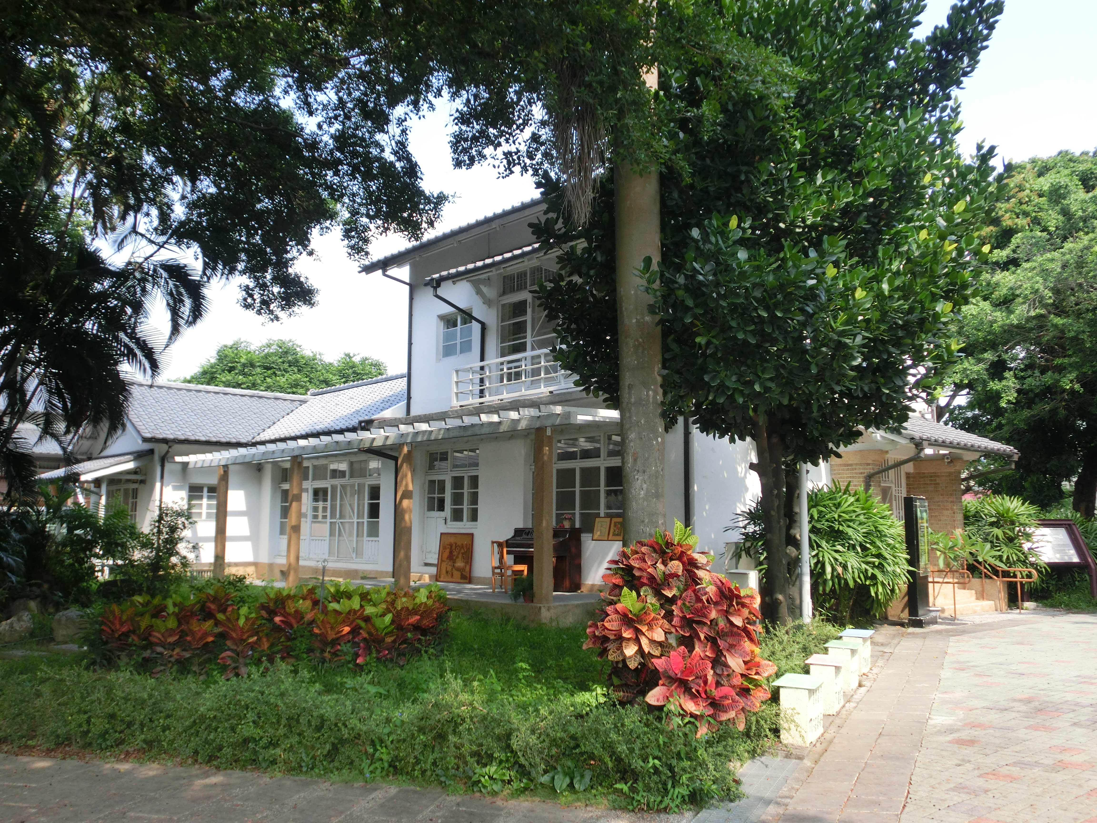 House of the Music of Peoples, Pingtung City